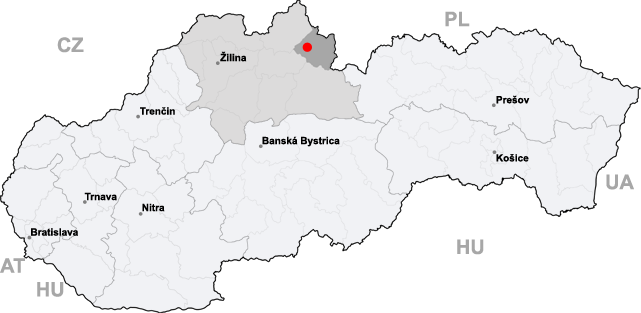 map of Slovakia, city of Tvrdošín highlighted